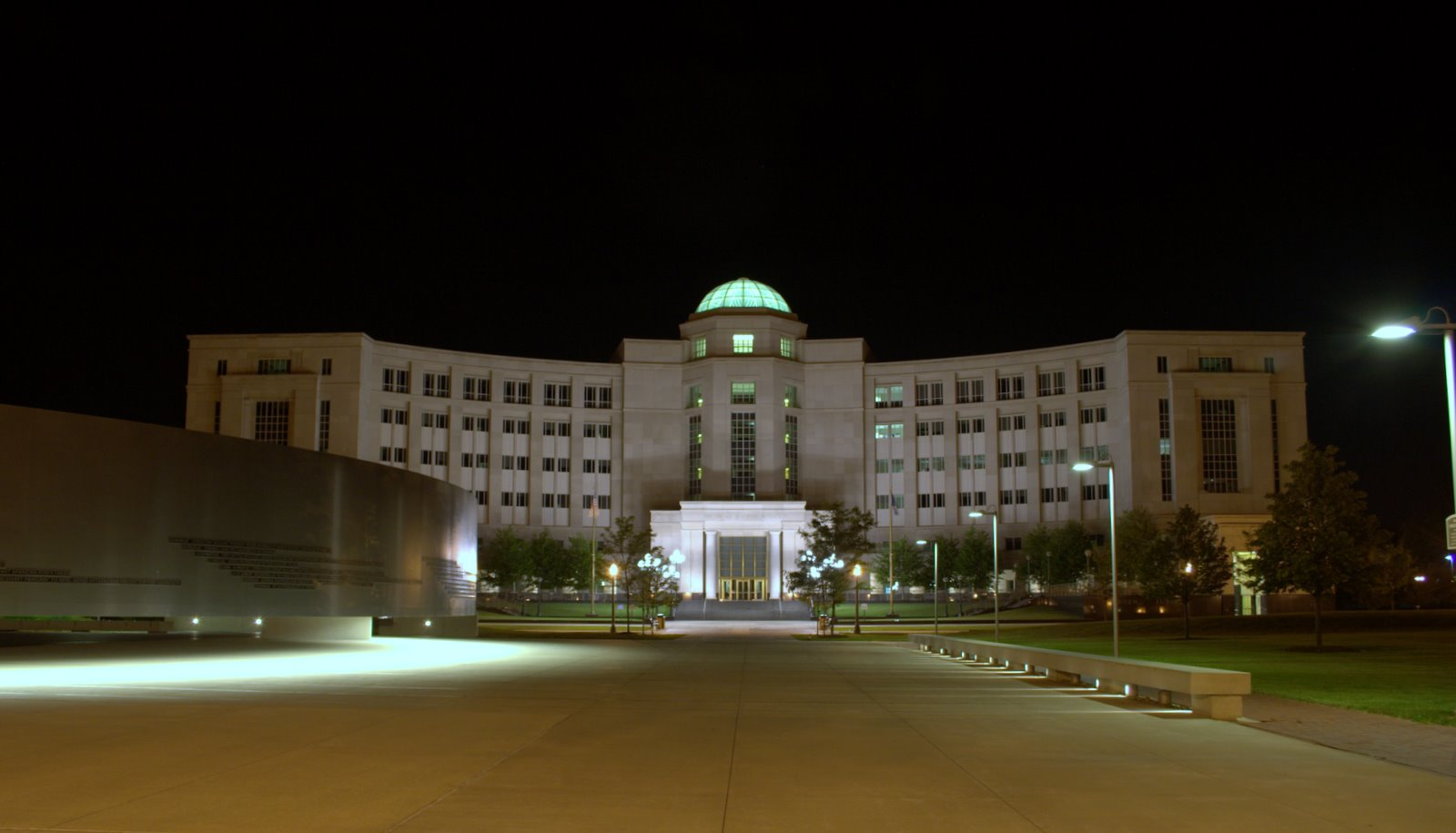 The Michigan Supreme Court building located in downtown Lansing, Michigan.